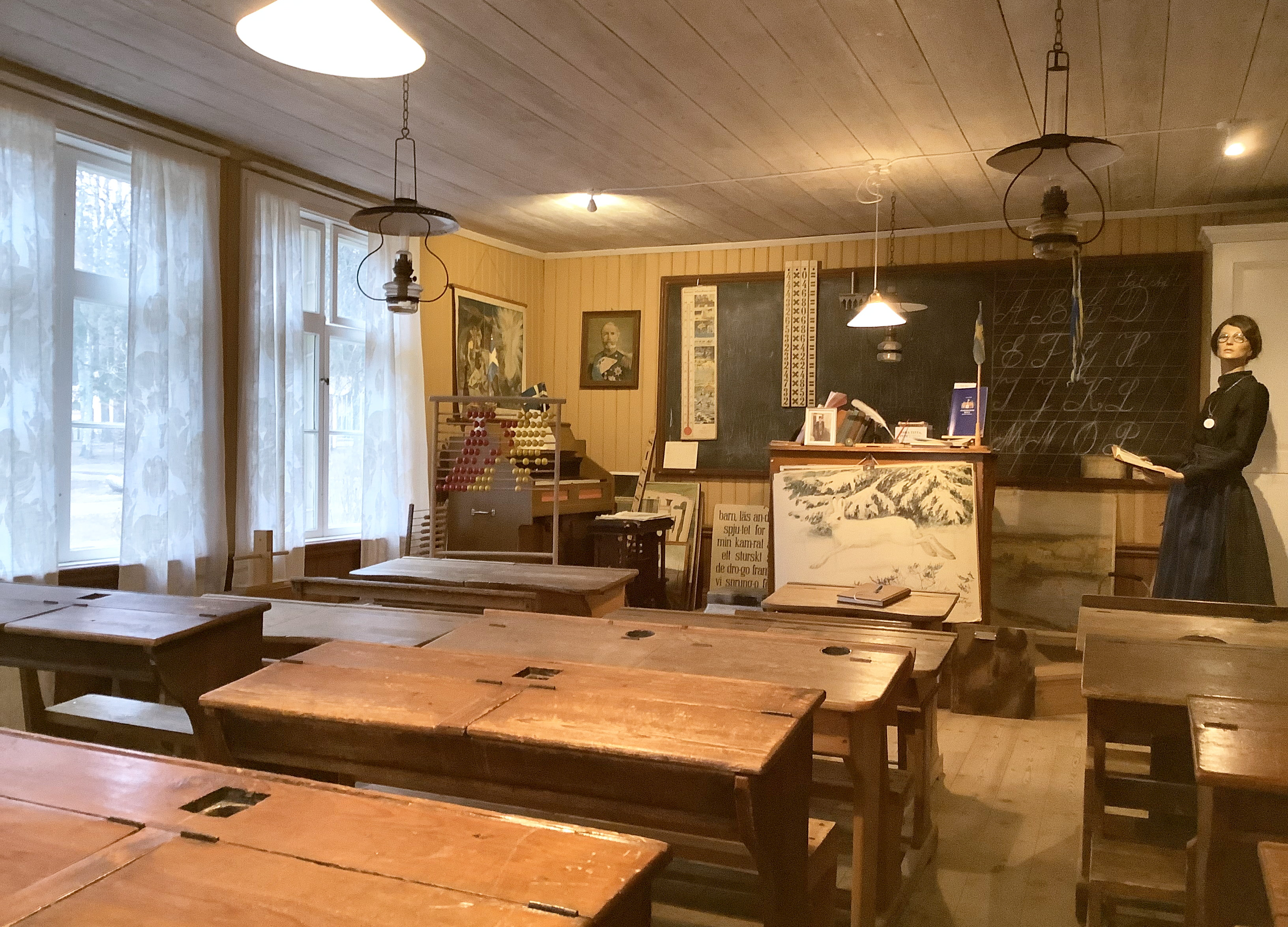 Classroom in Svartbäcken school museum in Haninge municipality. The school building is from 1846.